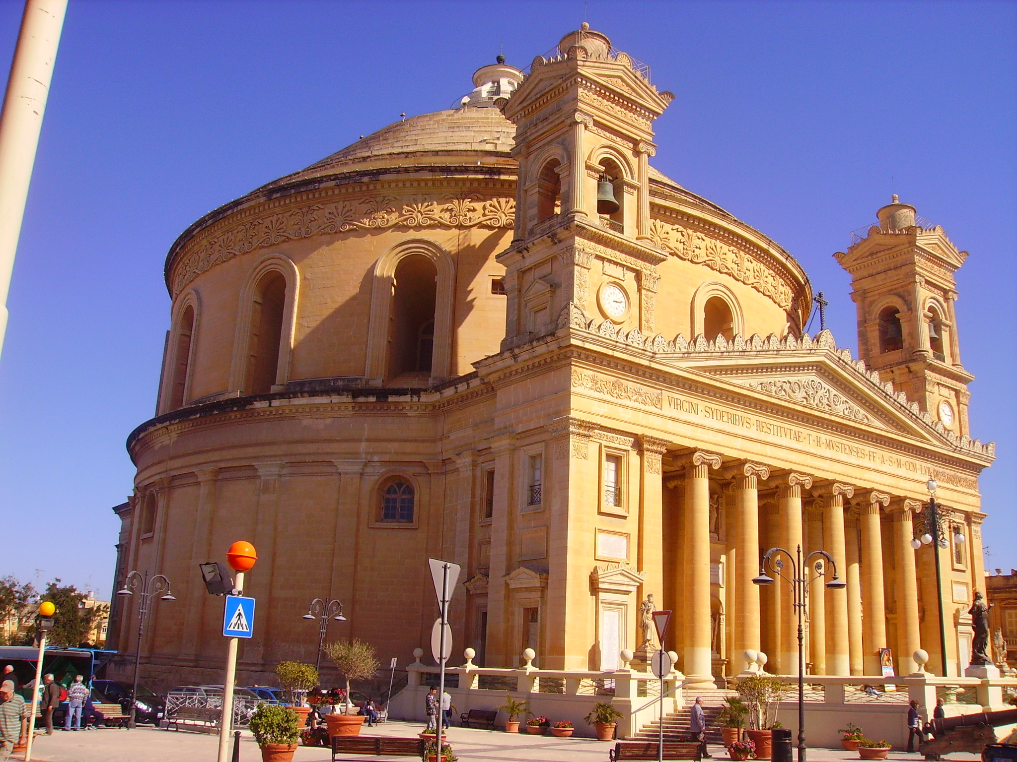 St. Mary Assumption, Mosta